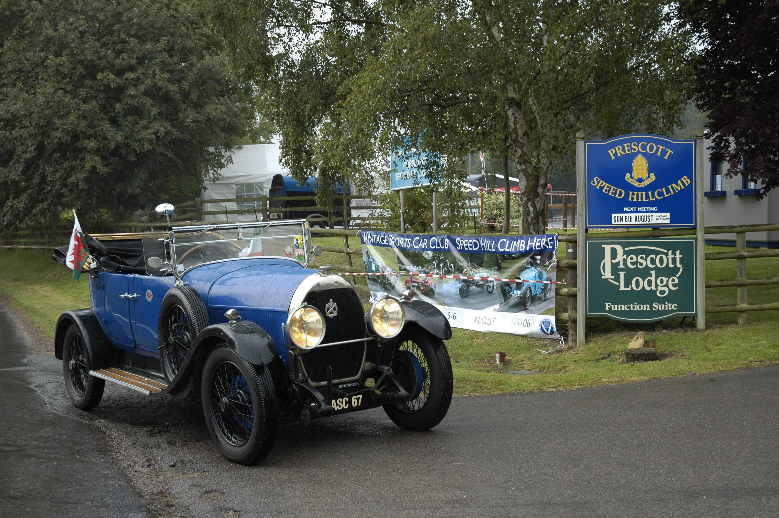 Hotchkiss AM2